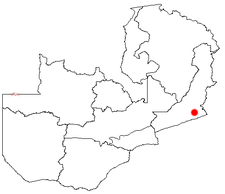 Map: Chadiza, town and district in the southern province of Zambia